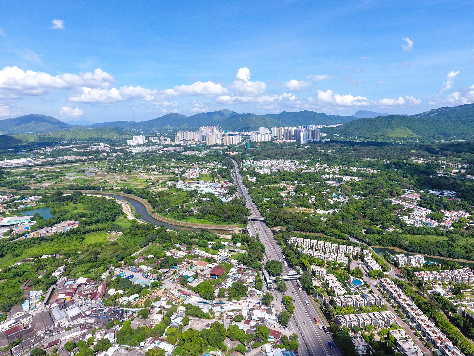 North District Aerial View